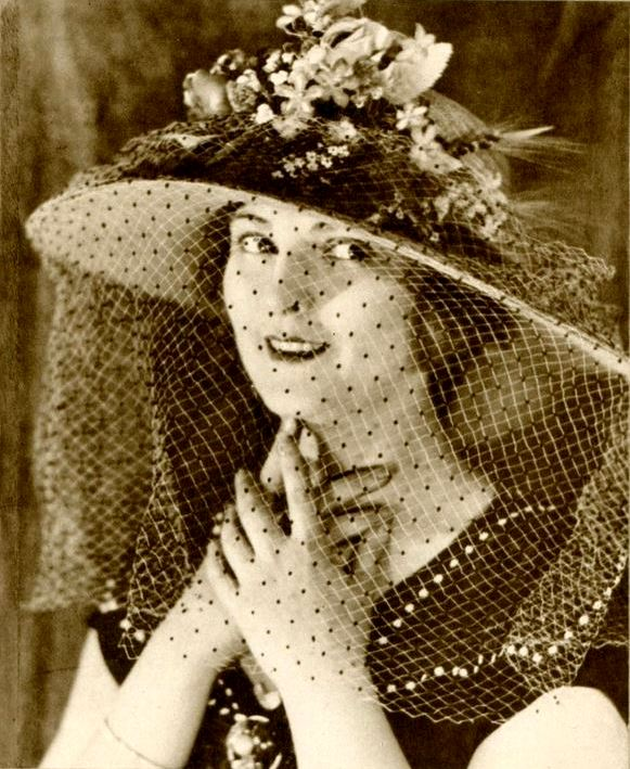 American actress Priscilla Dean on page 4 of the March 23, 1922 Silverscreen magazine.